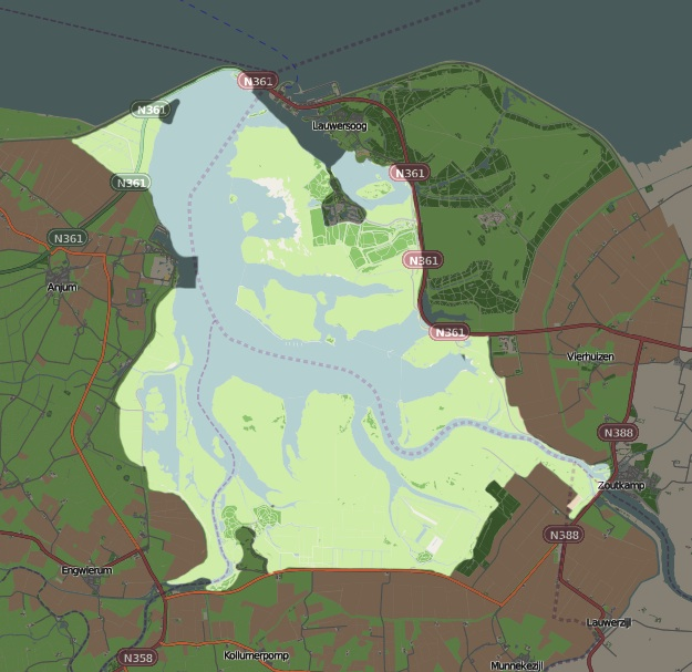 This map may be incomplete, and may contain errors. Don't rely solely on it for navigation.